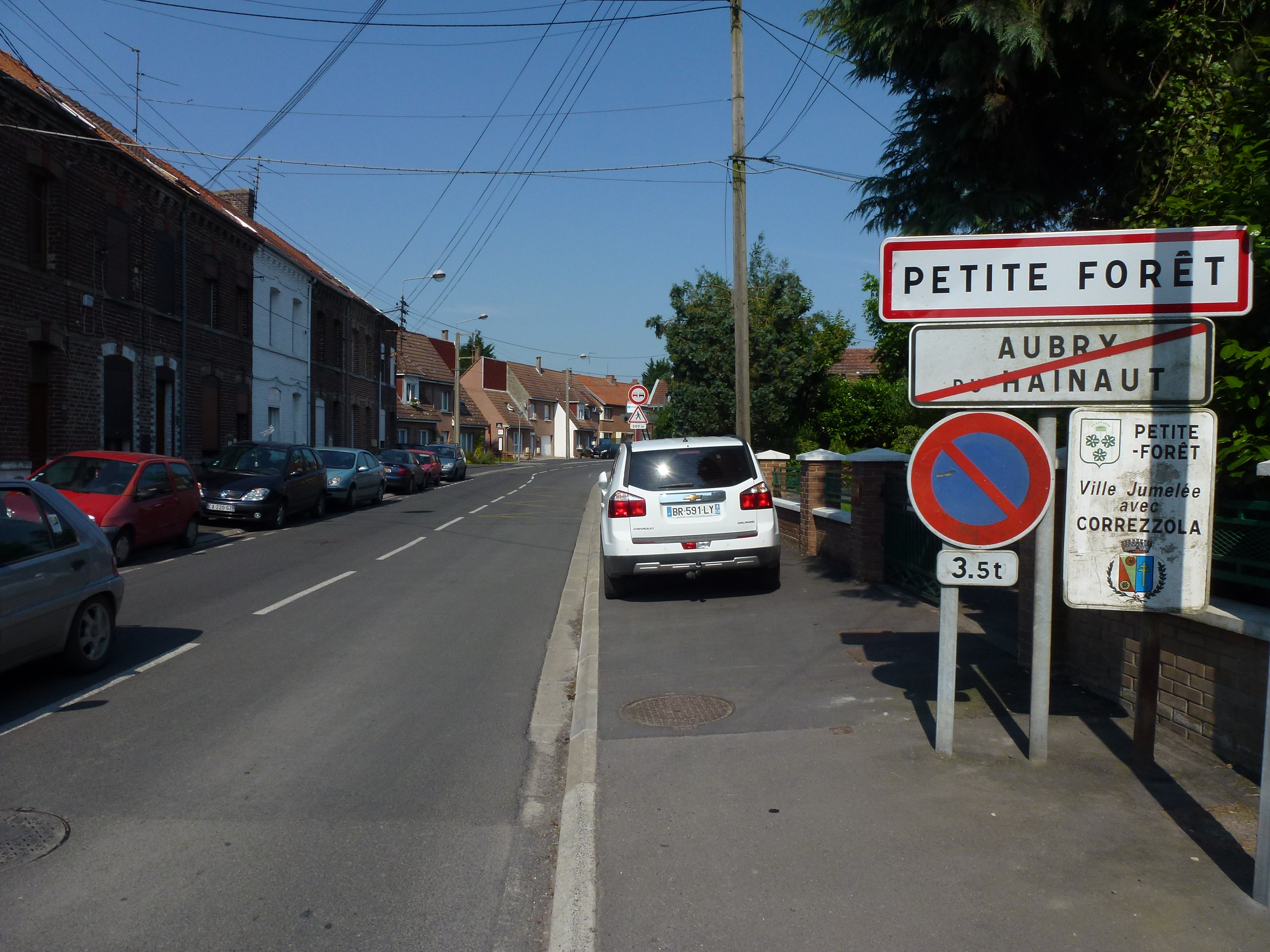 Petite-Forêt (Nord, Fr) city limit sign